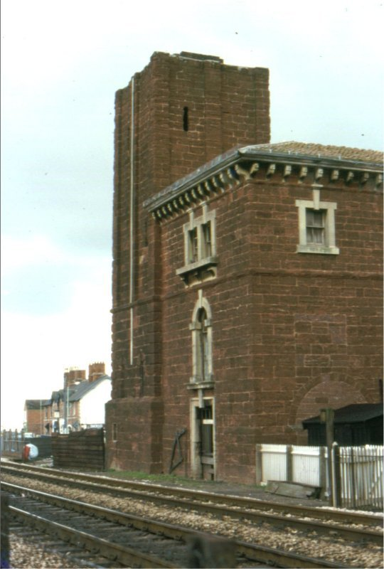 Pumping House at Starcross, Devon, UK originally part of Brunel's Atmospheric Railway. Taken by Geotek 1979